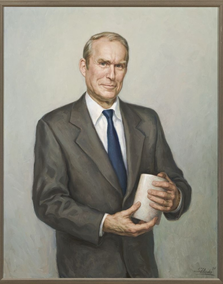 Portrait of the Finnish professor of mining technology Paavo Maijala (1911–1991).